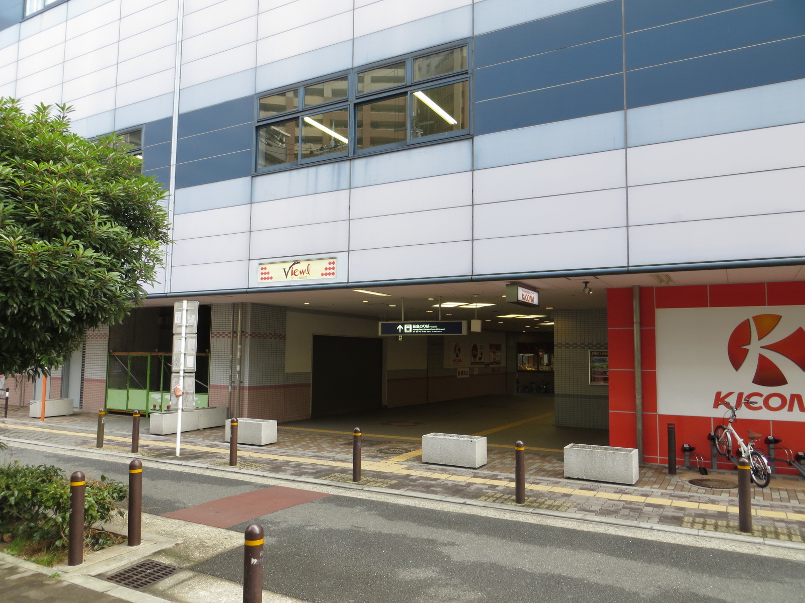 Central Gate from Mikuni Station (Osaka) (HK41).